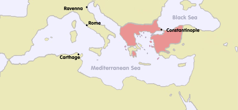 Map of the Byzantine Empire in c. 1270.